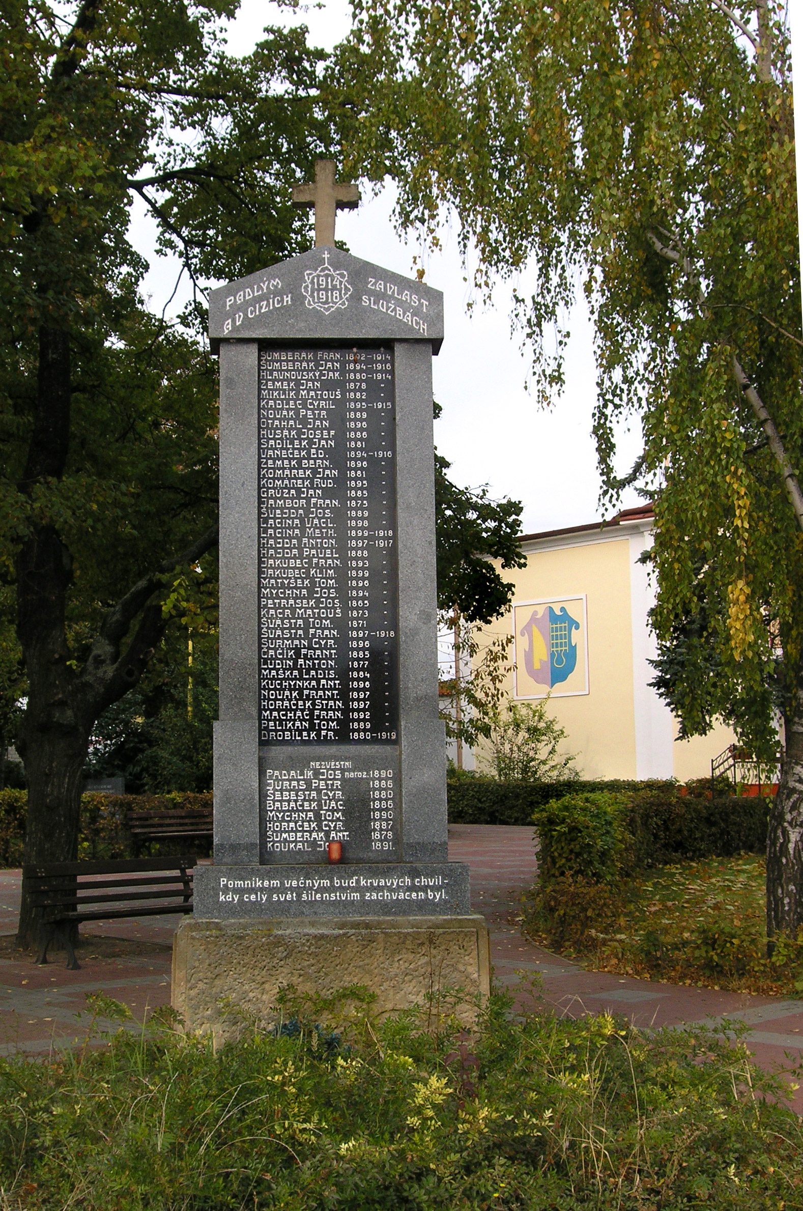 Memorial in Bořetice, Czech Republic